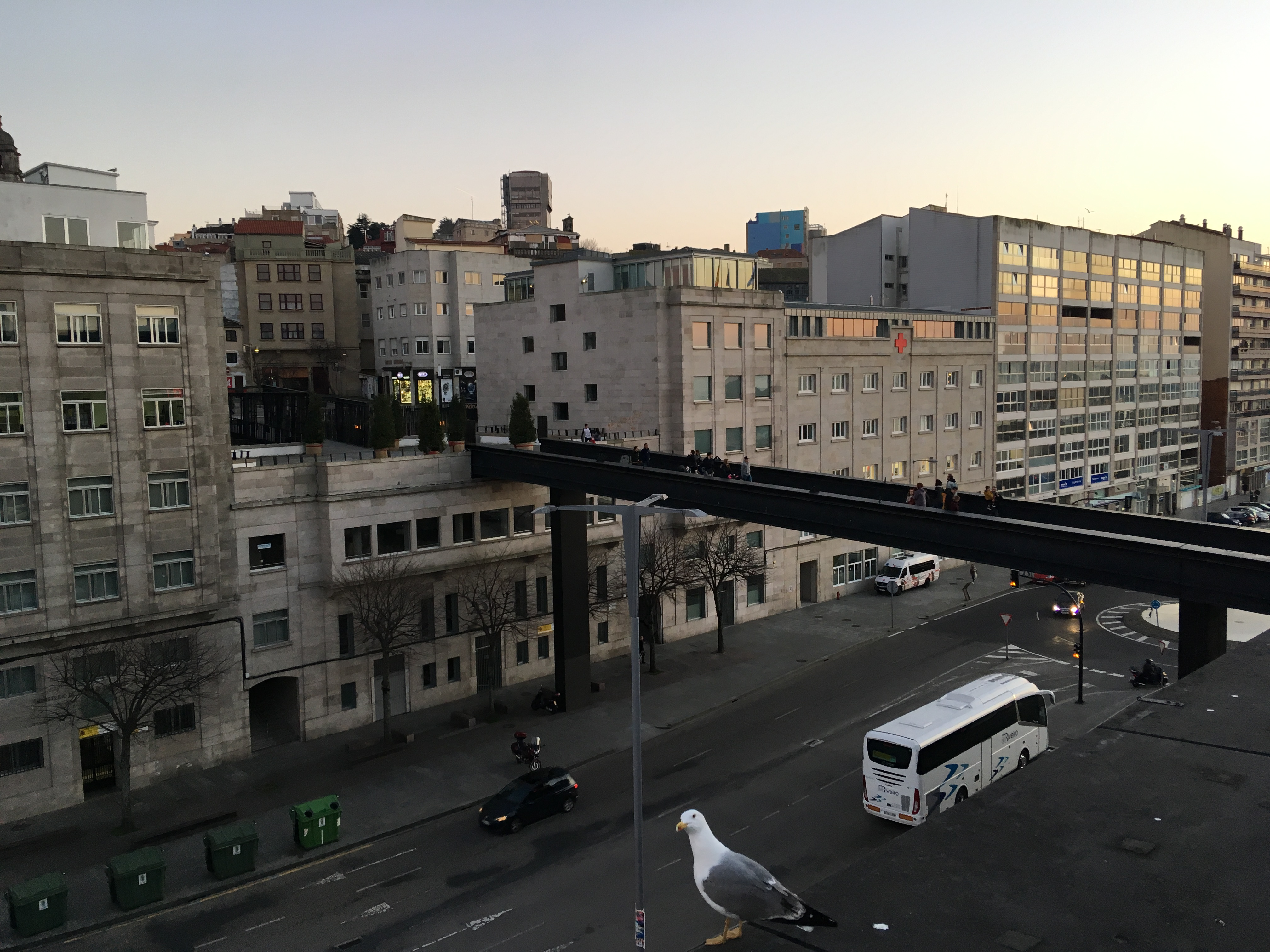 Galicia, Spain - February-March 2018